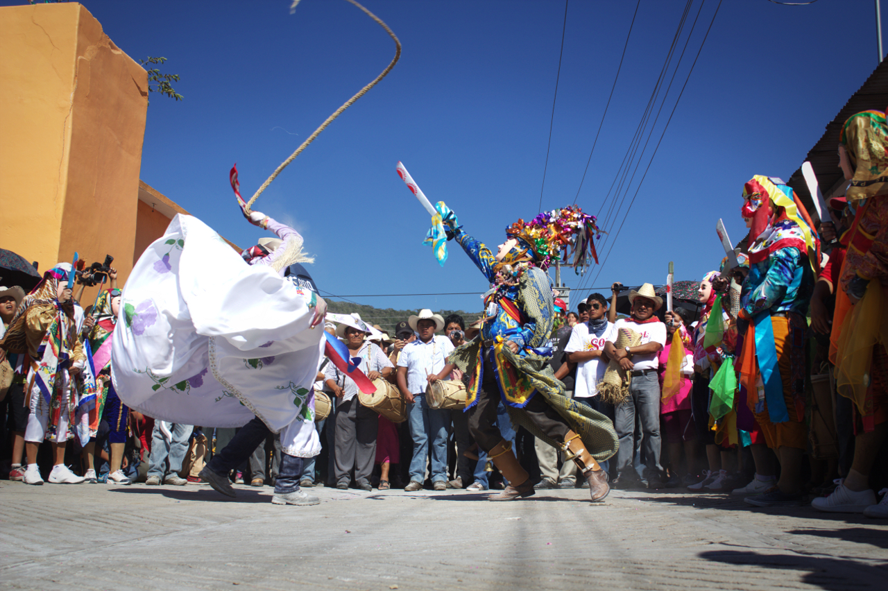 Battle between Mohammed and the Horse.